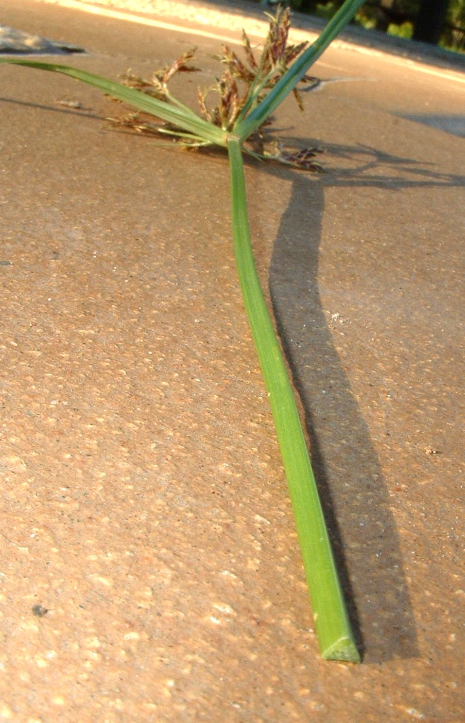 Enhanced version of the previous photo (contrast and brightness adjusted).